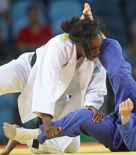 2016 Summer Olympics Judo, August 9